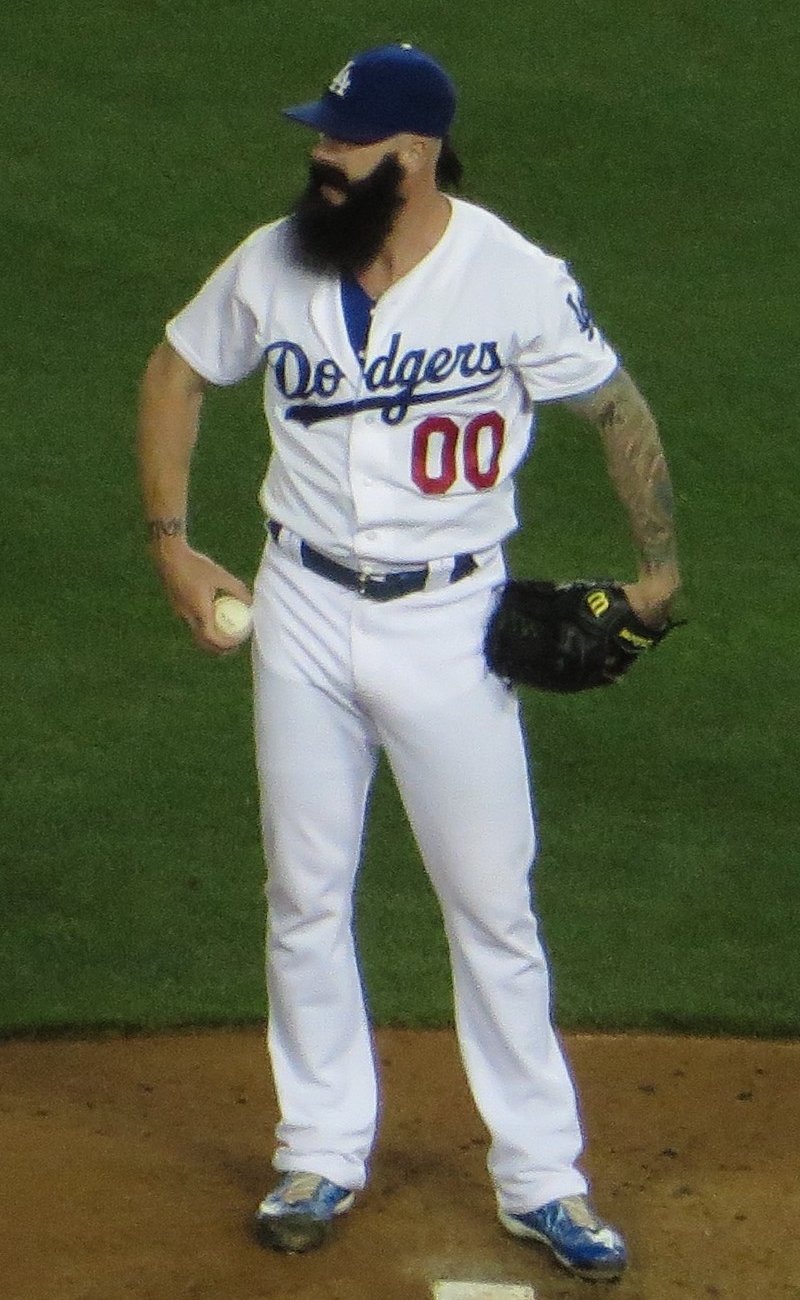 Brian Wilson